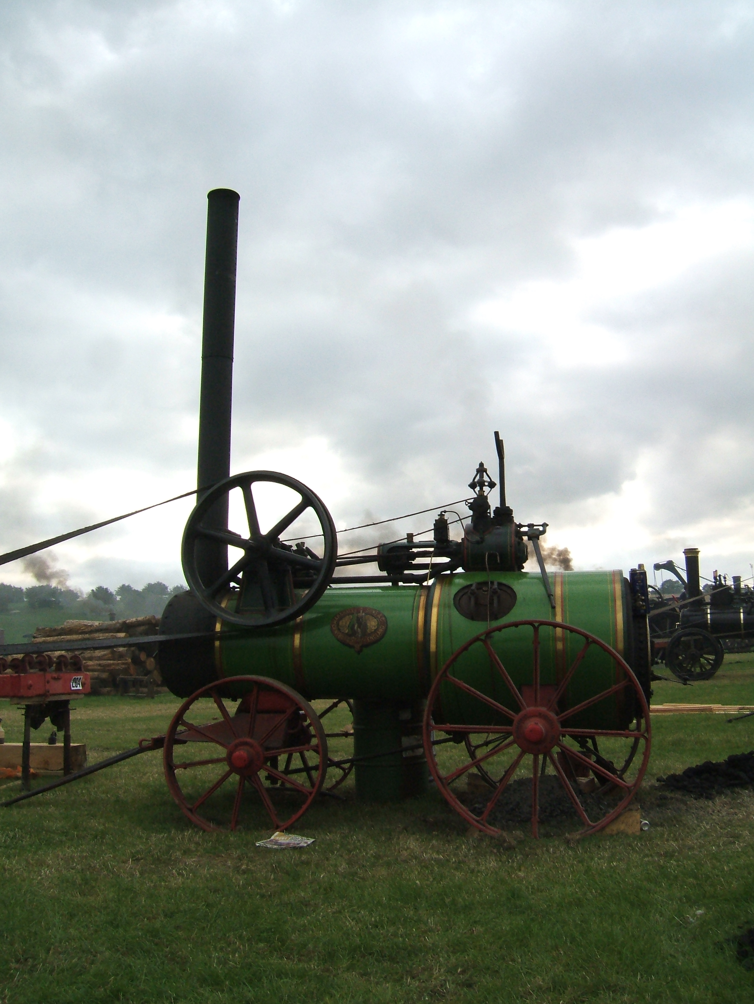 Marshall portable engine at the Great Dorset Steam Fair Marshall 6nhp single-cylinder portable engine, no. 87866, built 1936. This is an example of a portable engine with the round 'marine'- or 'colonial'-type firebox, designed for burning wood (or straw, etc) usually intended for export to countries not having their own coal reserves.